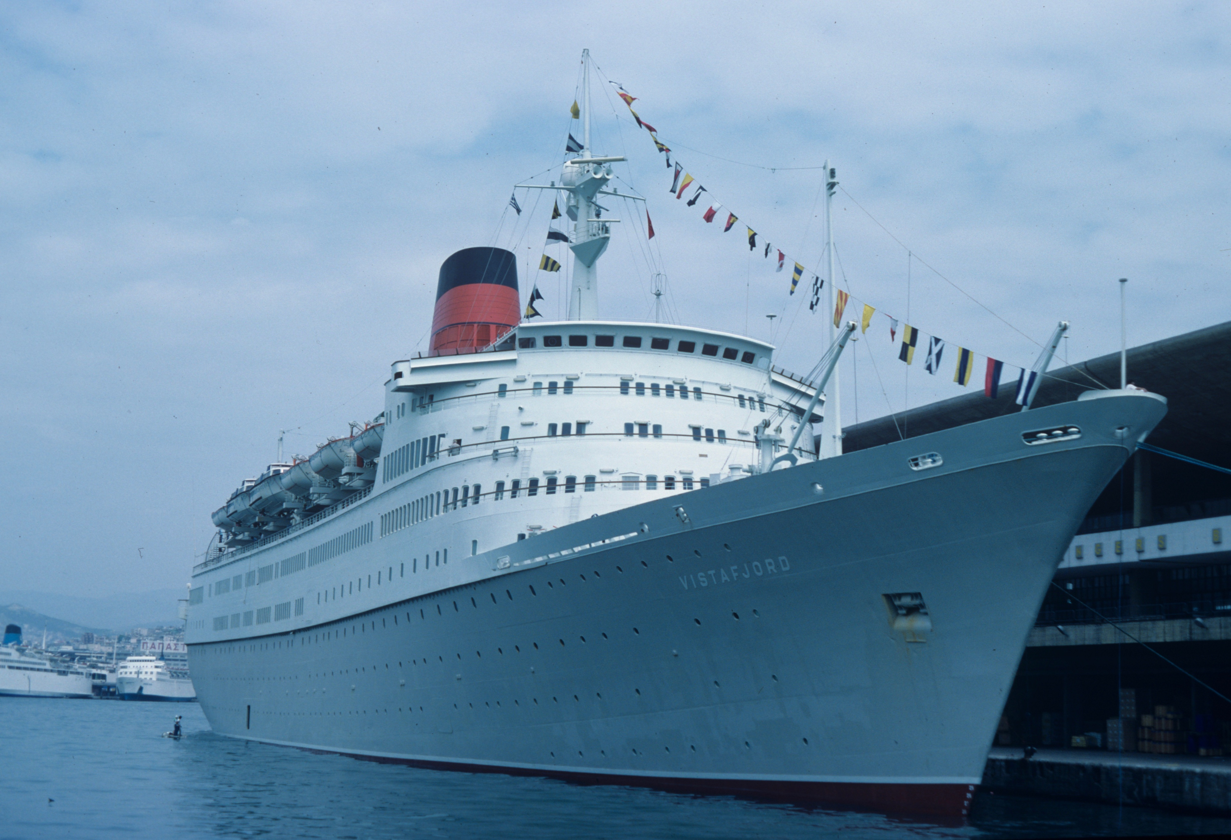 The cruise ship Vistafjord in Piraeus in 1984.